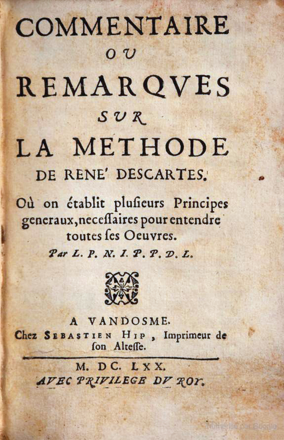 Book cover